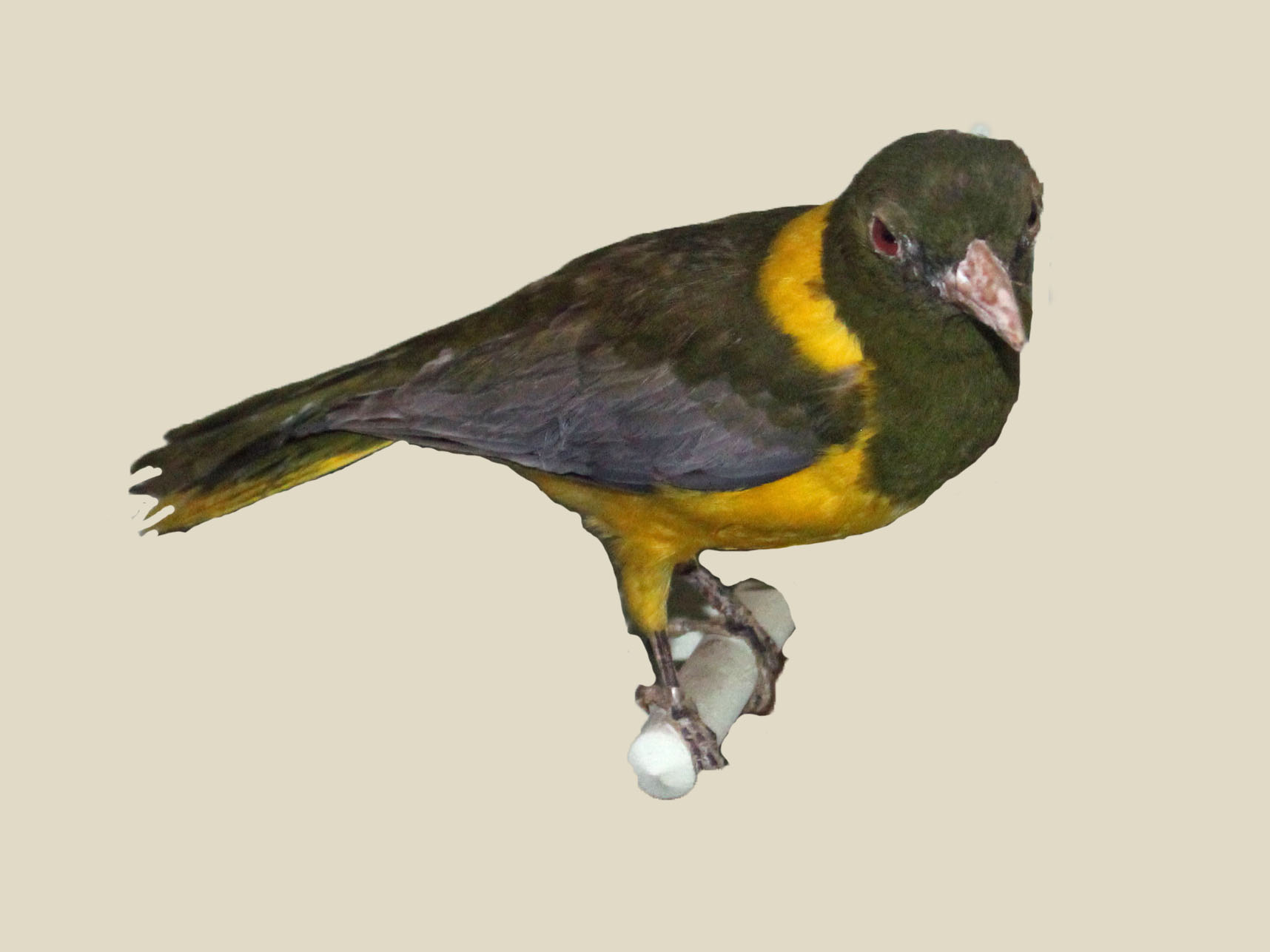 Green-headed Oriole (Oriolus chlorocephalus). Photograph of a specimen at Nairobi National Museum in Nairobi, Kenya.